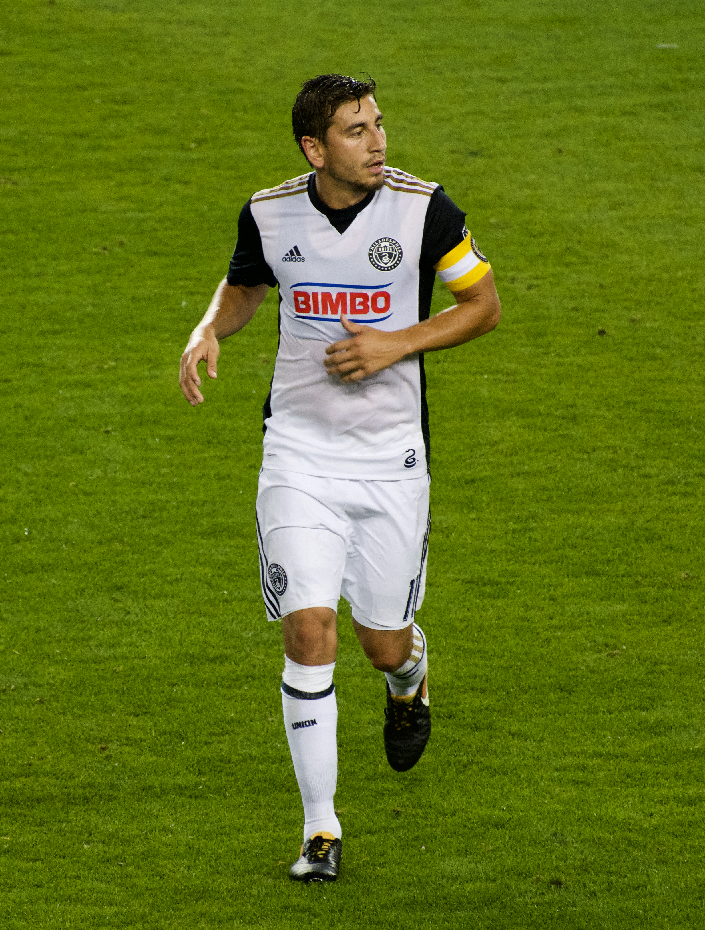 playing for Philadelphia Union at Avaya Stadium on 19 August 2017.